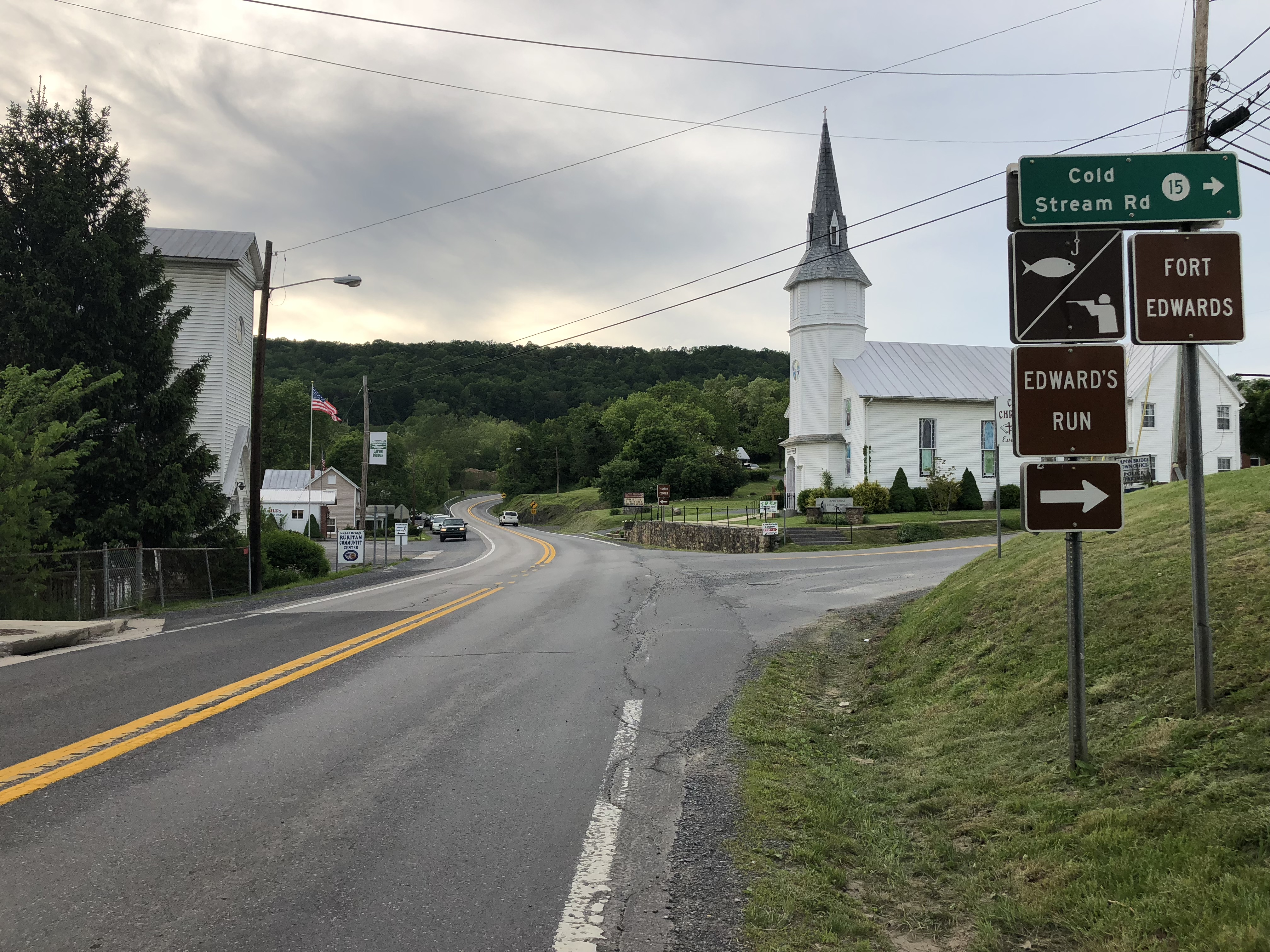 View west along U.S. Route 50 (Northwestern Pike) at Hampshire County Route 15 (Cold Stream Road) in Capon Bridge, Hampshire County, West Virginia